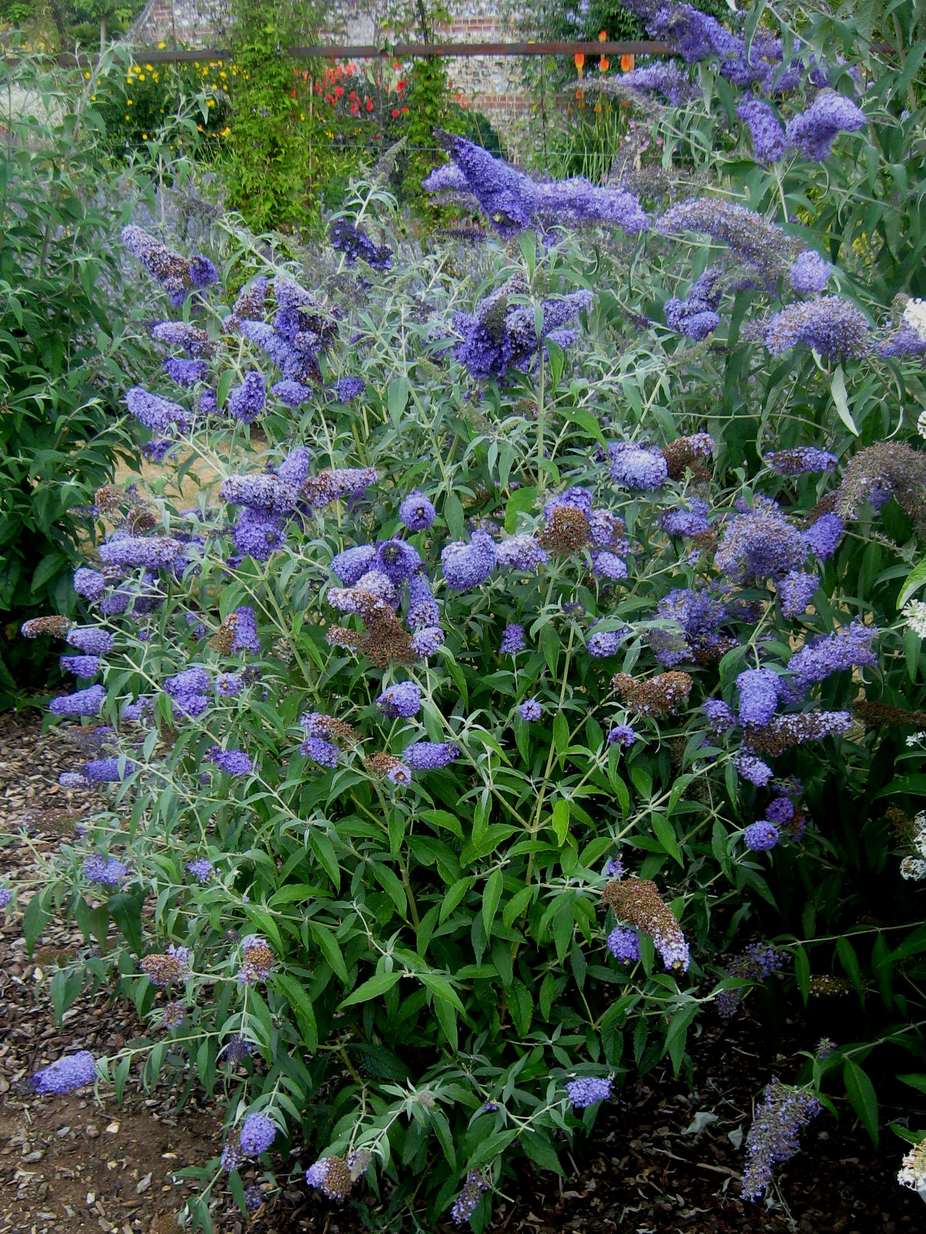 Photo of Buddleja 'Buzz Lavender', plant, Longstock Park, UK